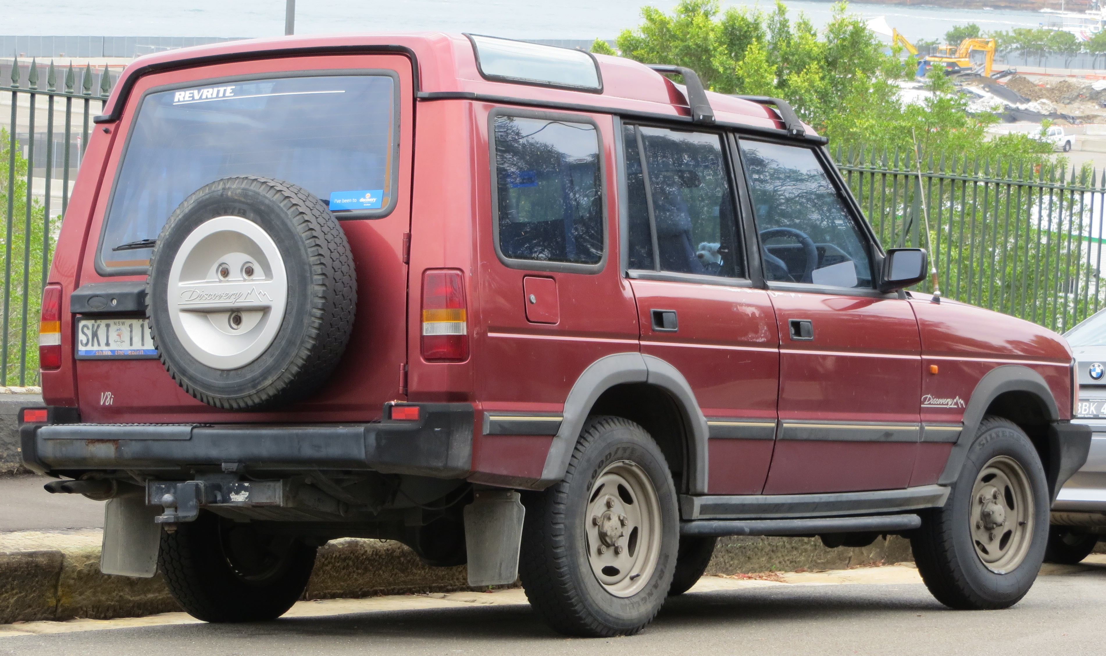 1993 Land Rover Discovery V8i 5-door wagon. Photographed in Millers Point, New South Wales, Australia.